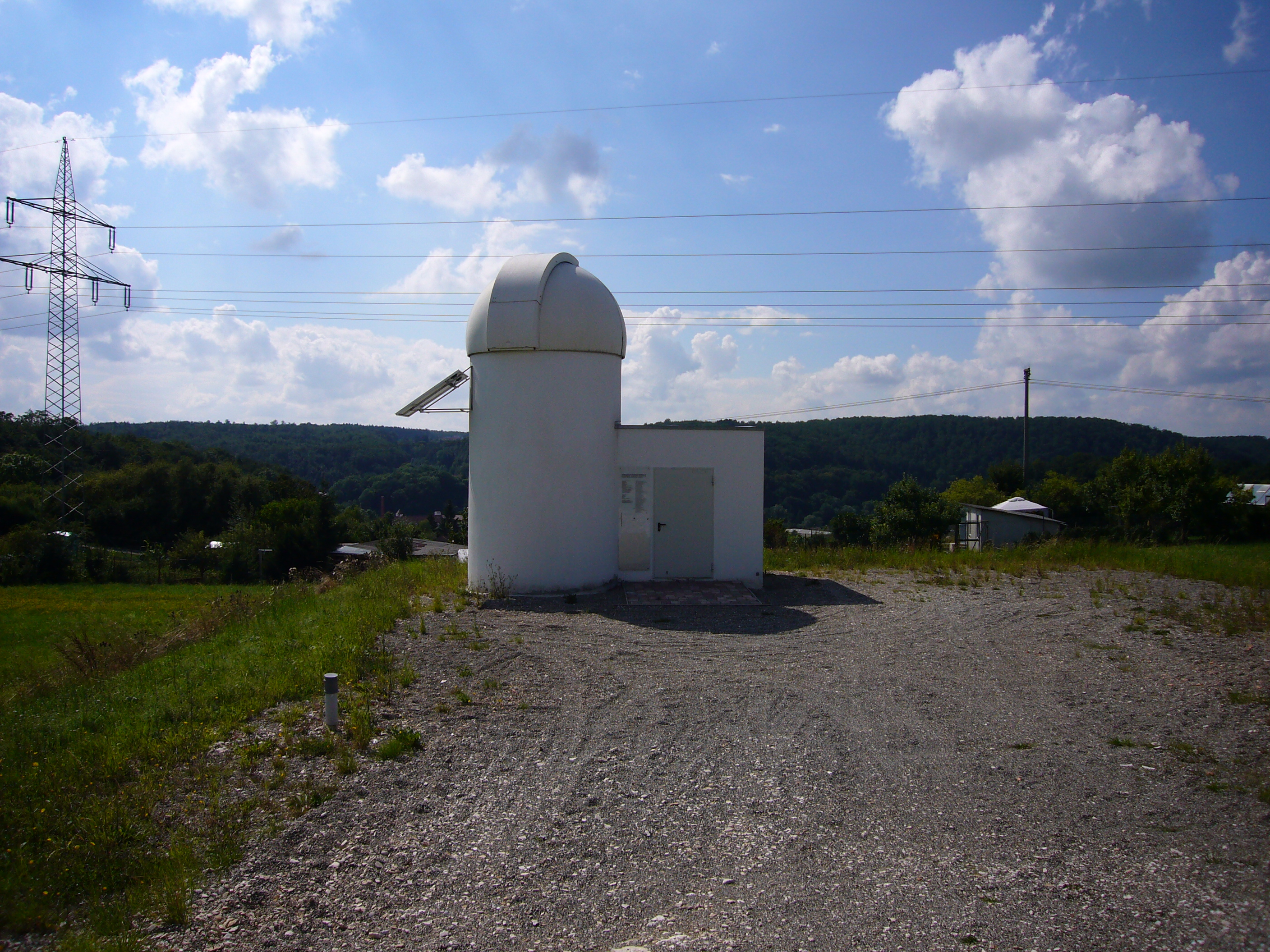 Picture of the astronomical observatory in Heidenheim an der Brenz.